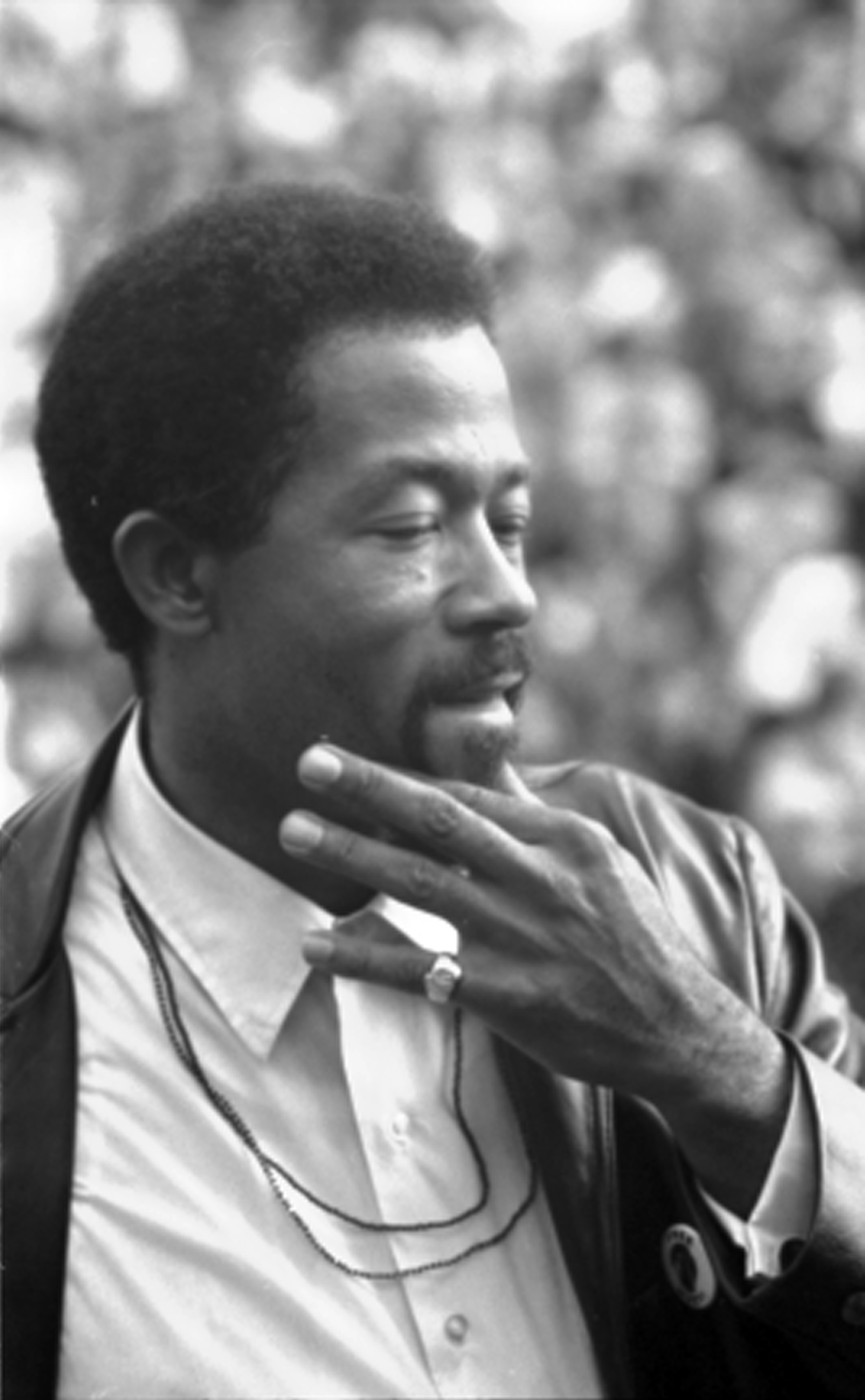 American civil rights leader and Black Panther Party member Eldridge Cleaver (1935-1998)